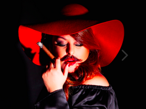 Nina Dotti character in "Doña Delincuente". Picture by Pipe Yanguas